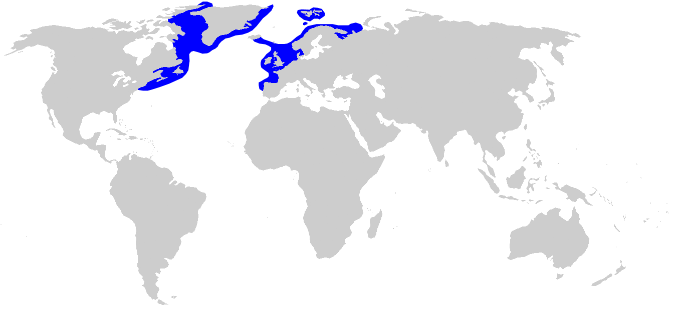 Distribution map for Somniosus microcephalus